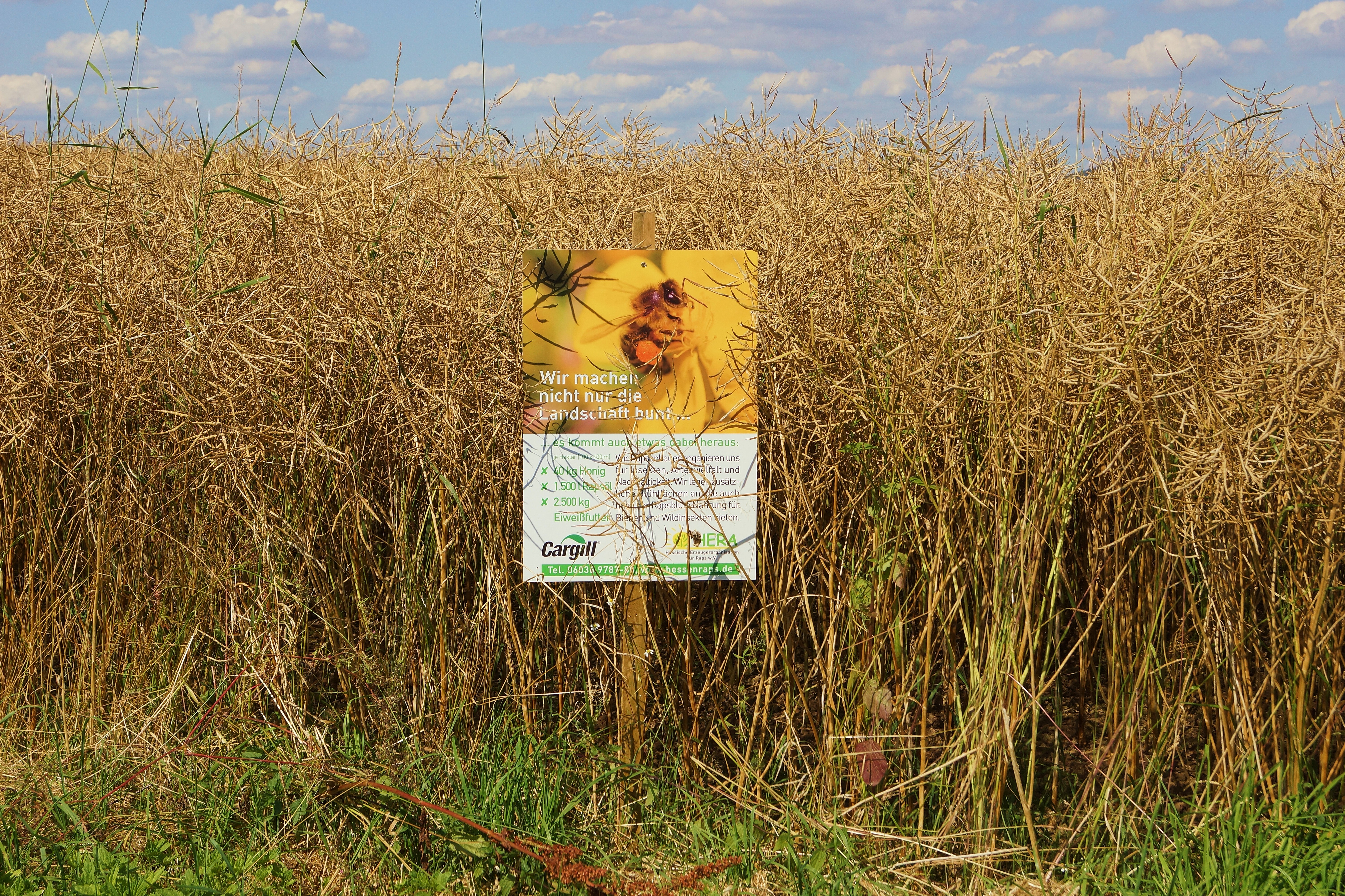 Rapeseed field near Fulda in Hesse